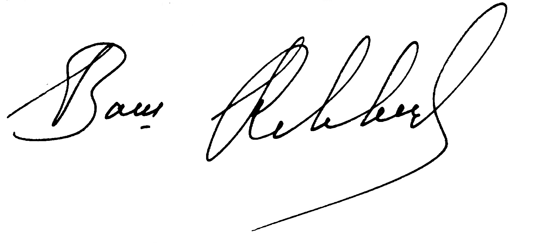 The signature of Russian poet-interpreter William Levik